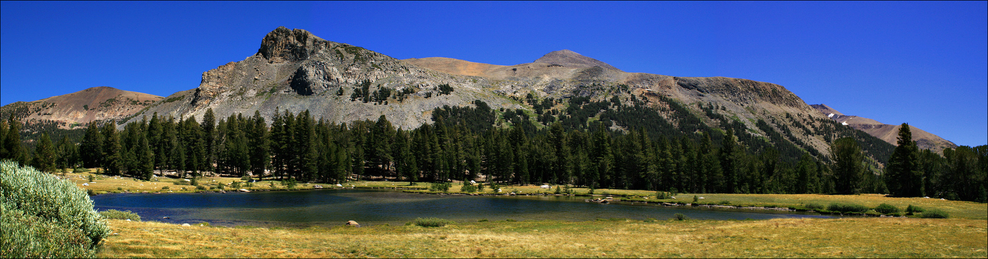 Panoramic Photograph of Mount Dana, Yosemite taken from Tioga Pass Park Entrance